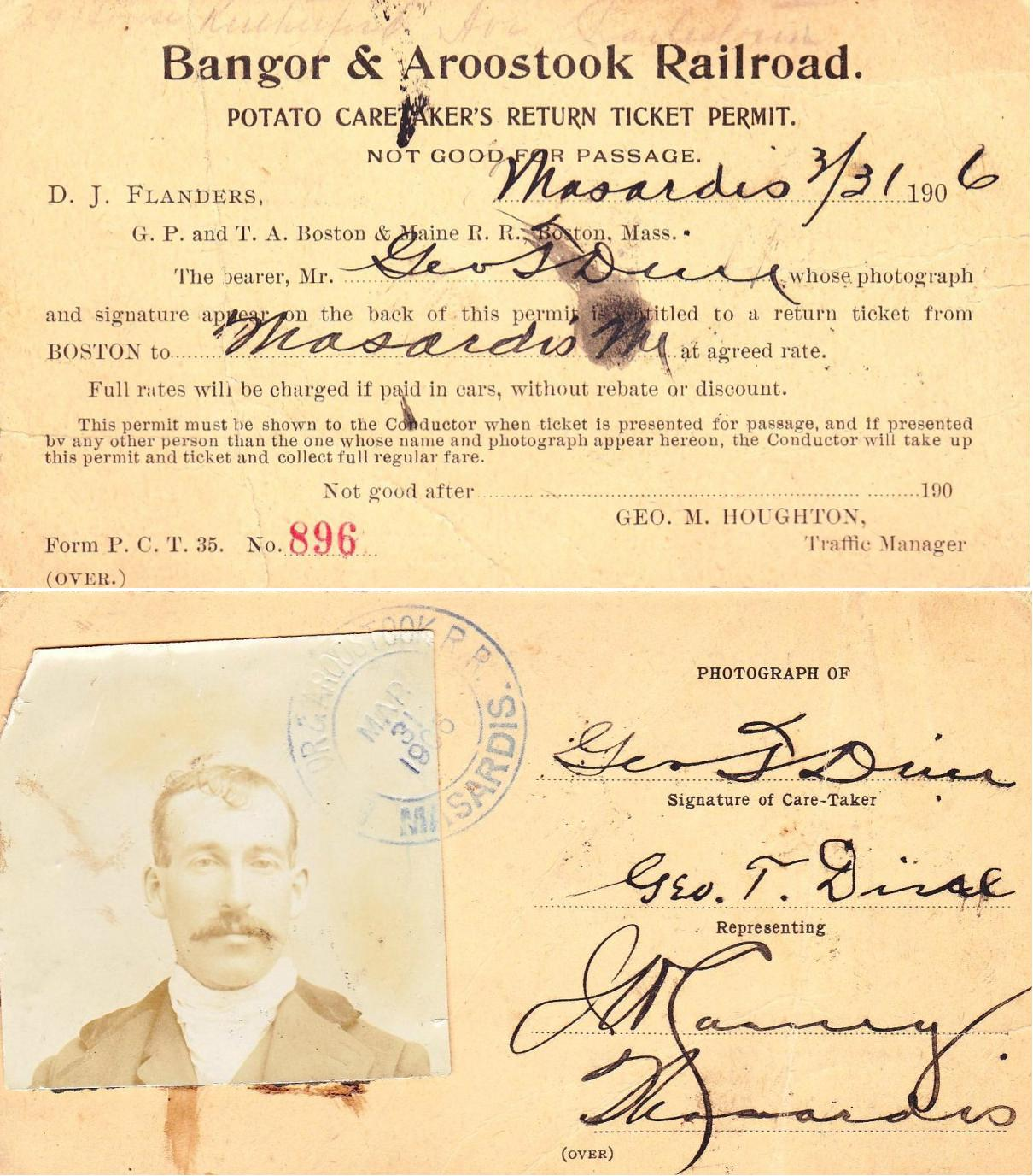 Image of a Bangor and Aroostook Railroad pass for one of its potato workers. The shipping of potatoes was very important to both the state of Maine and the railroad; so much so that they hired men to tend to the potatoes as they were being shipped. Their duties included keeping the freight car heaters in fuel and running. The pass shown here, entitled the worker to passage back to his home town via the Boston and Maine Railroad.